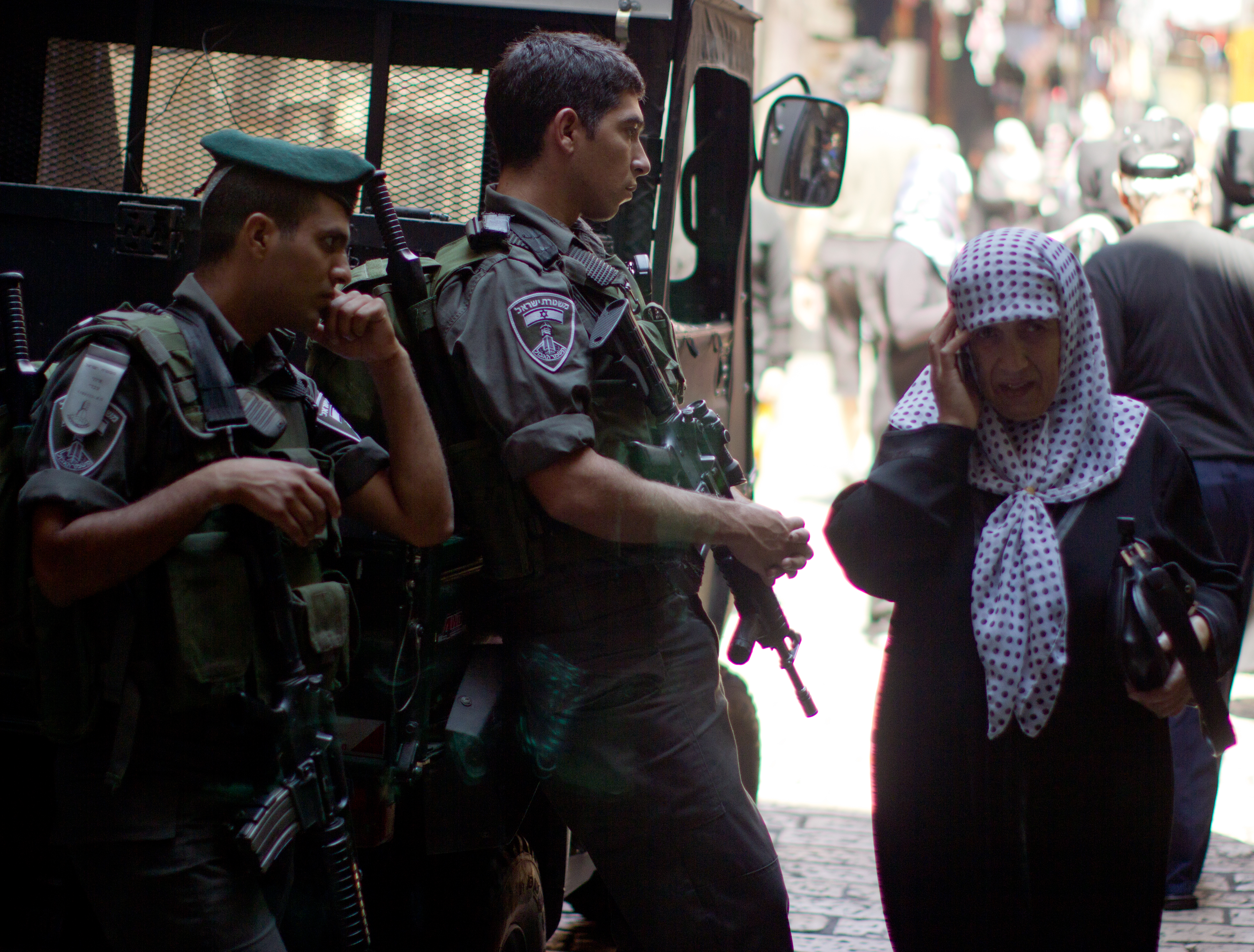 Jerusalem police and (not so old) arab woman with a smartphone